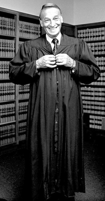 Harry Claiborne prior to being sworn in as a federal judge on 1 September 1978